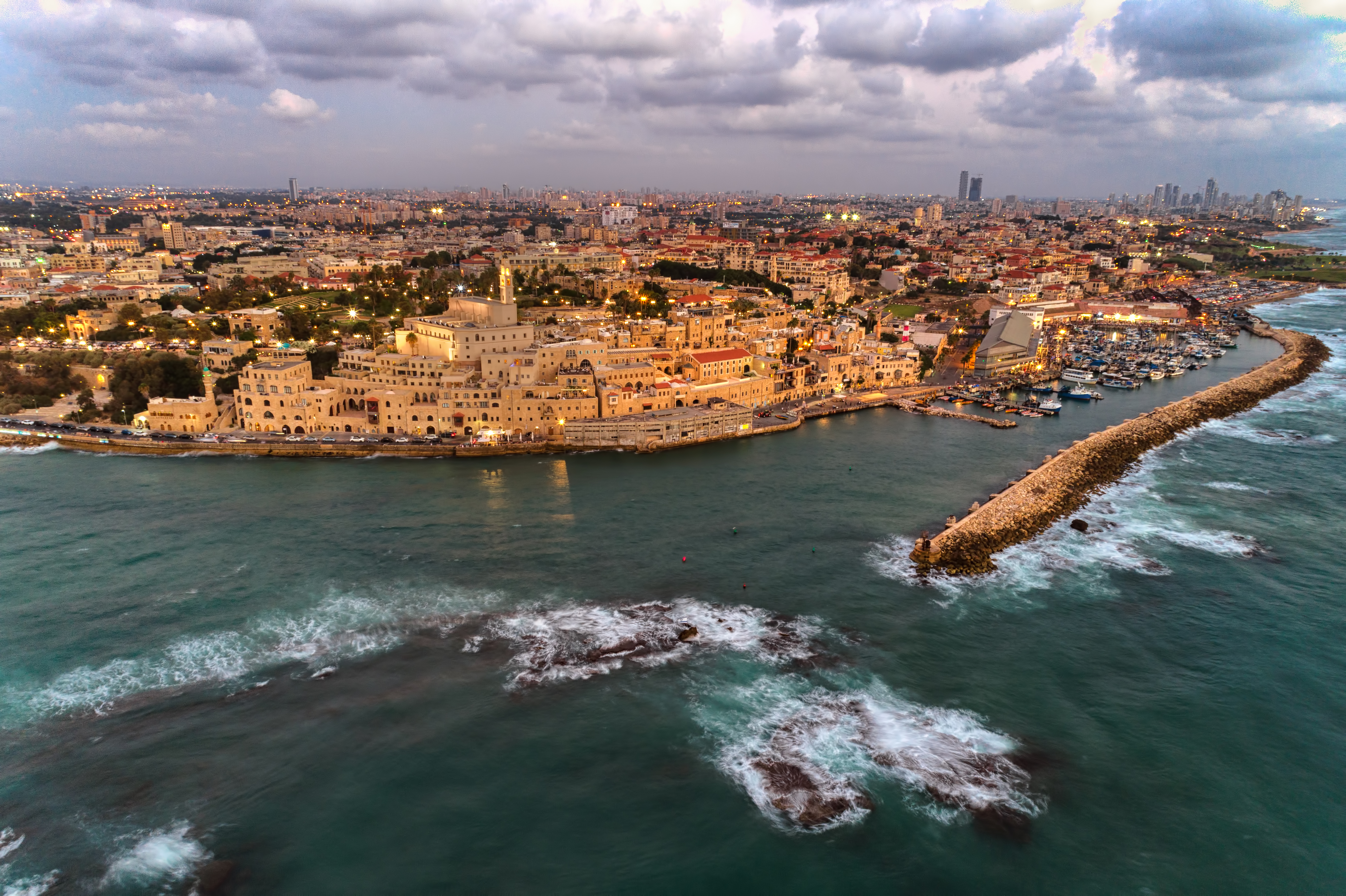 Aerial view of Jaffa